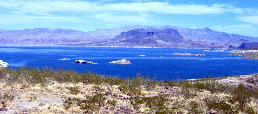 Description : Lake Mead, Nevada (USA) Author:own work, Urban ; I took this picture on April 2006